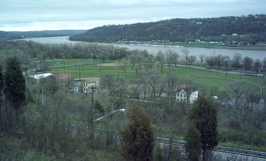 This photo is a picture of what currently sits on the old site of East End Park.